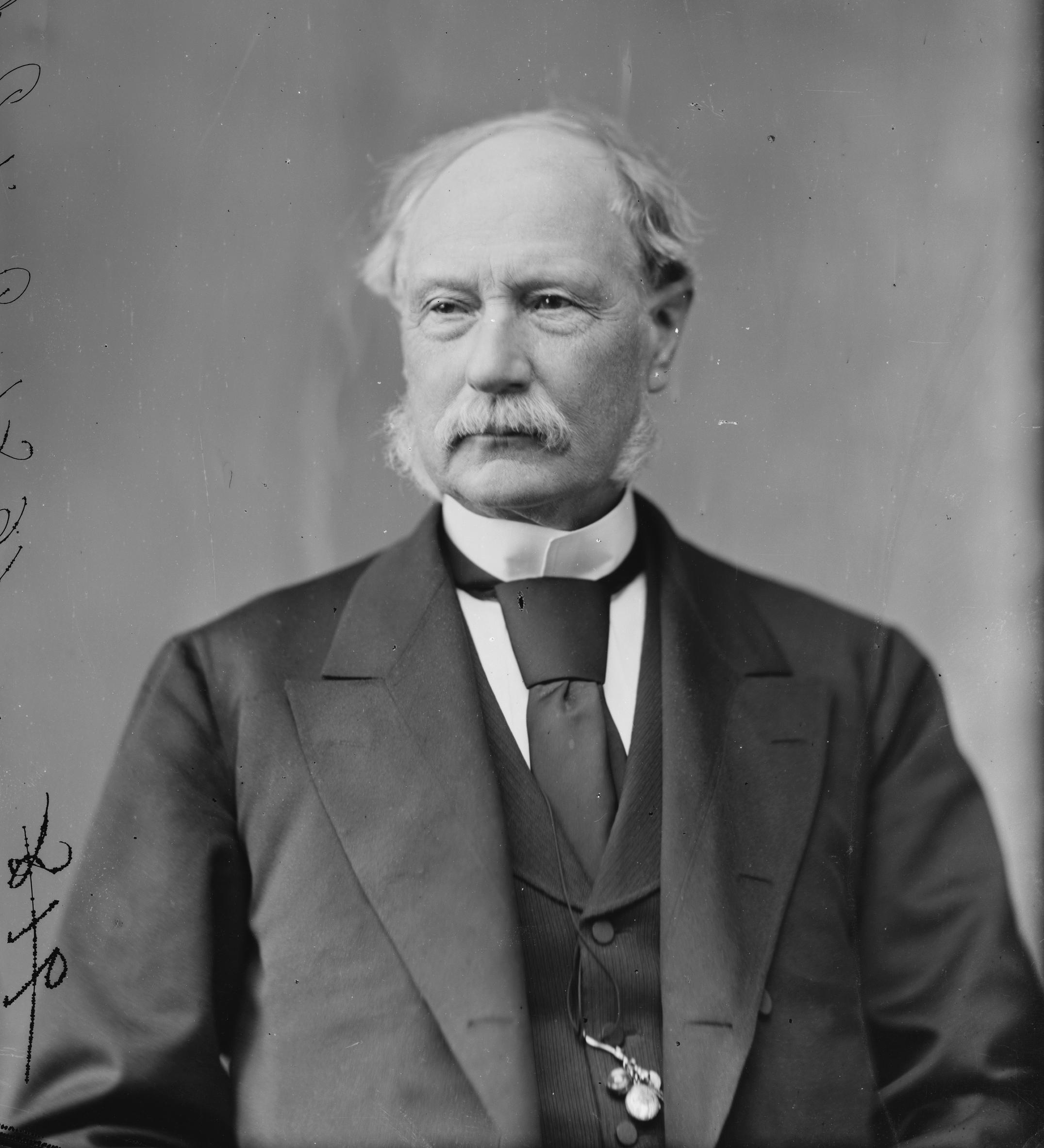 David Field. Library of Congress description: "Hon. David Dudley Field of NY"